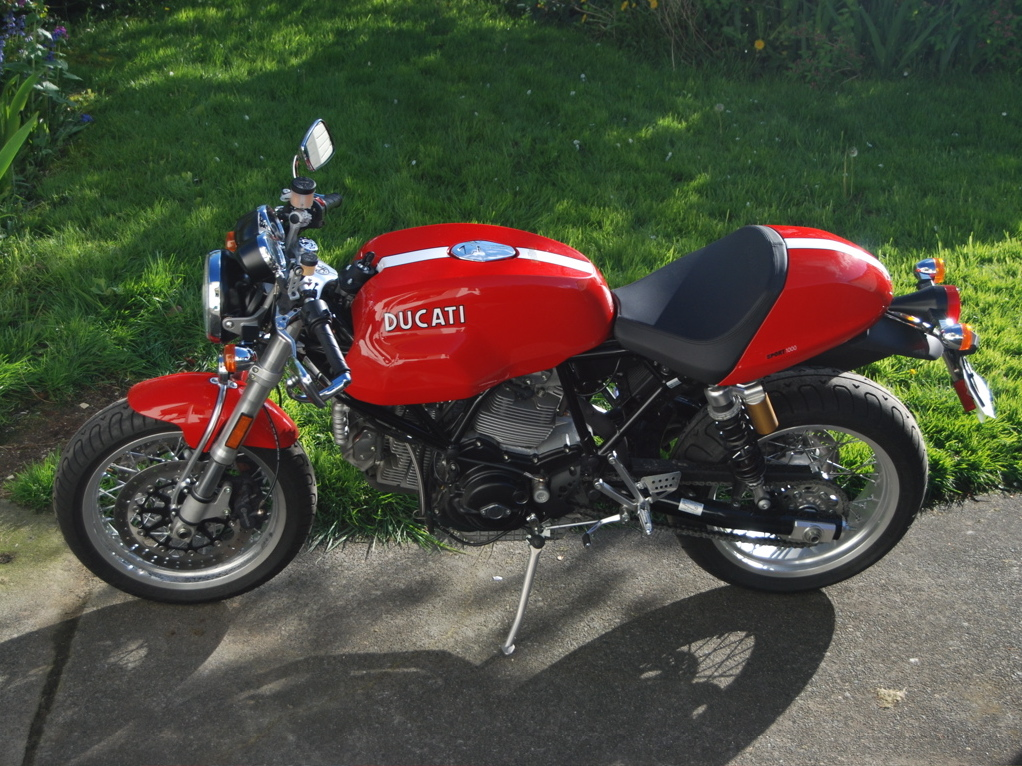 2006 Ducati Sport 1000 motorcycle. Color: "Ducati Anniversary Red". Stock except for Ducati bar risers.